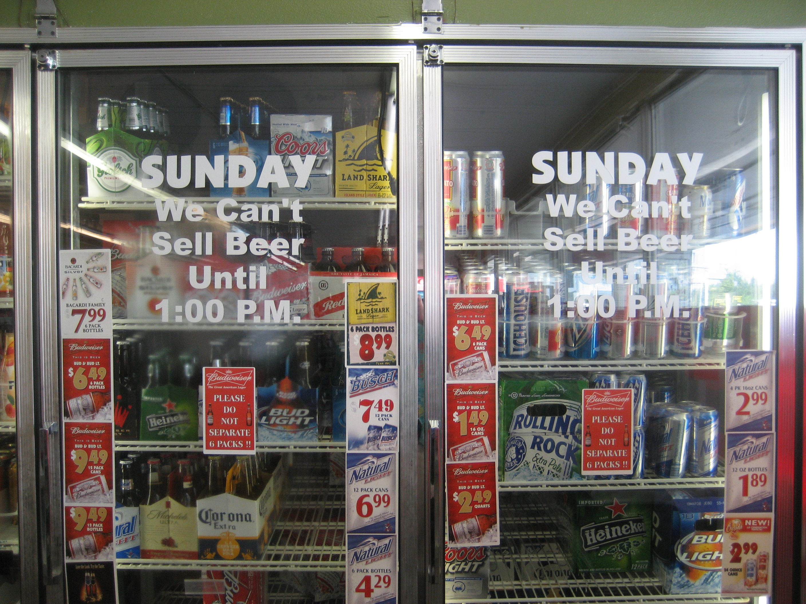 Yeehaw Junction, Florida. Laws regulating when beer can't be sold posted on front of shop beer cooler display.